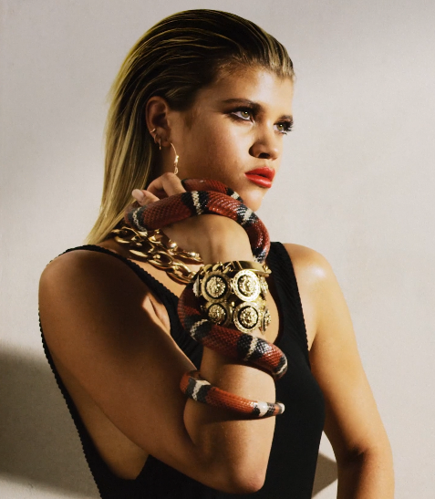 Image of model Sofia Richie at photoshoot